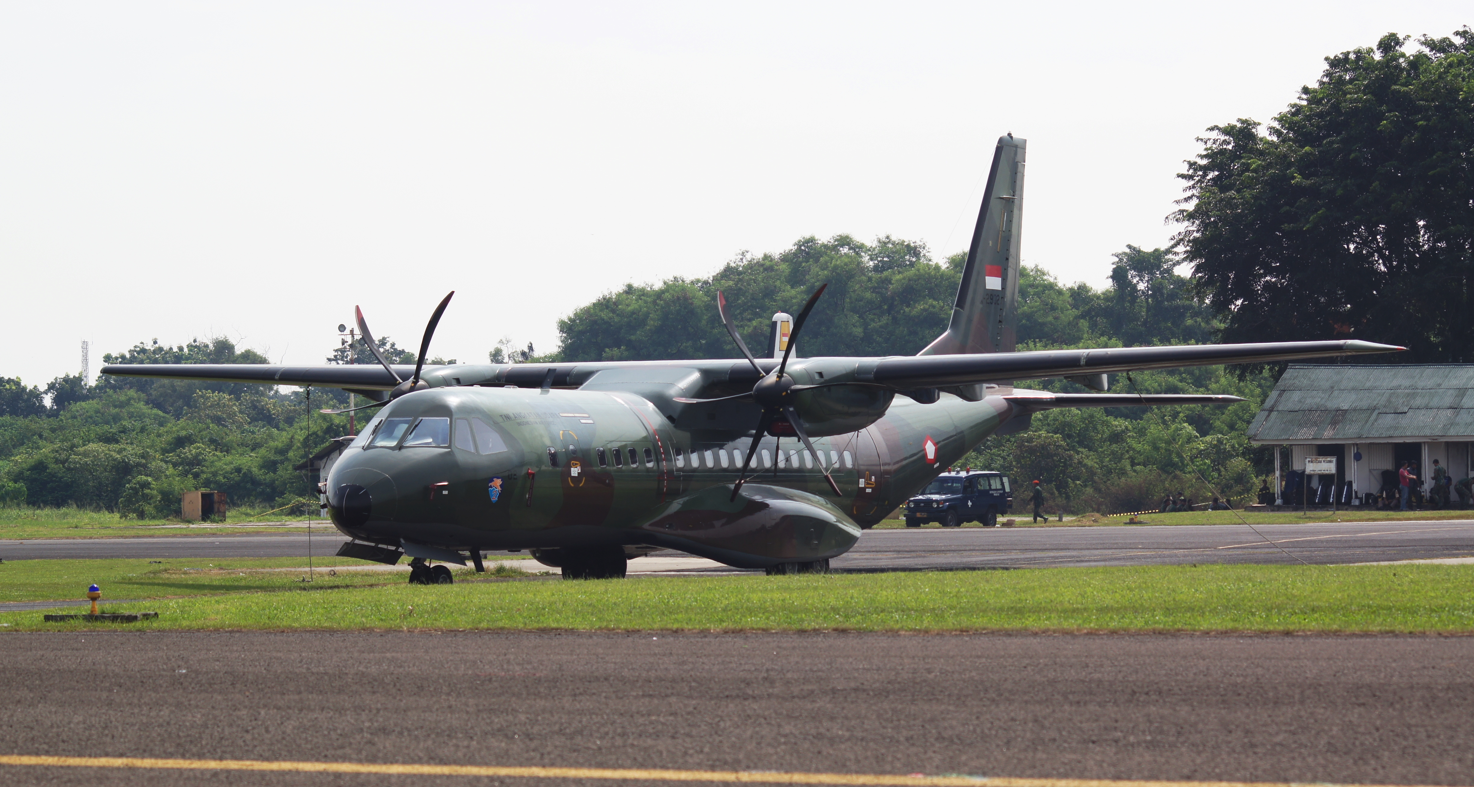 A-2902, Indonesian Air Force